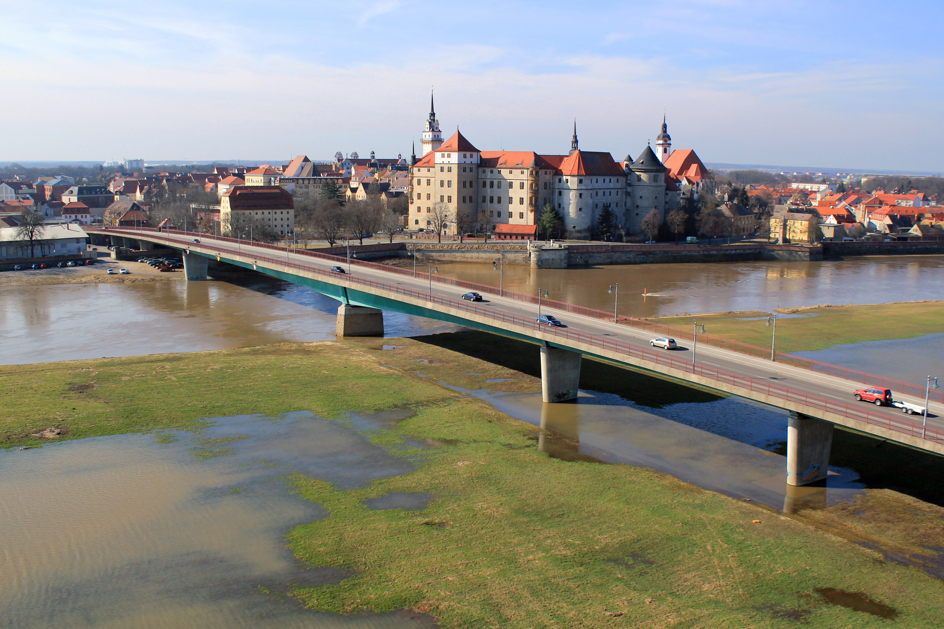 KAP (Kite Aerial Photography)